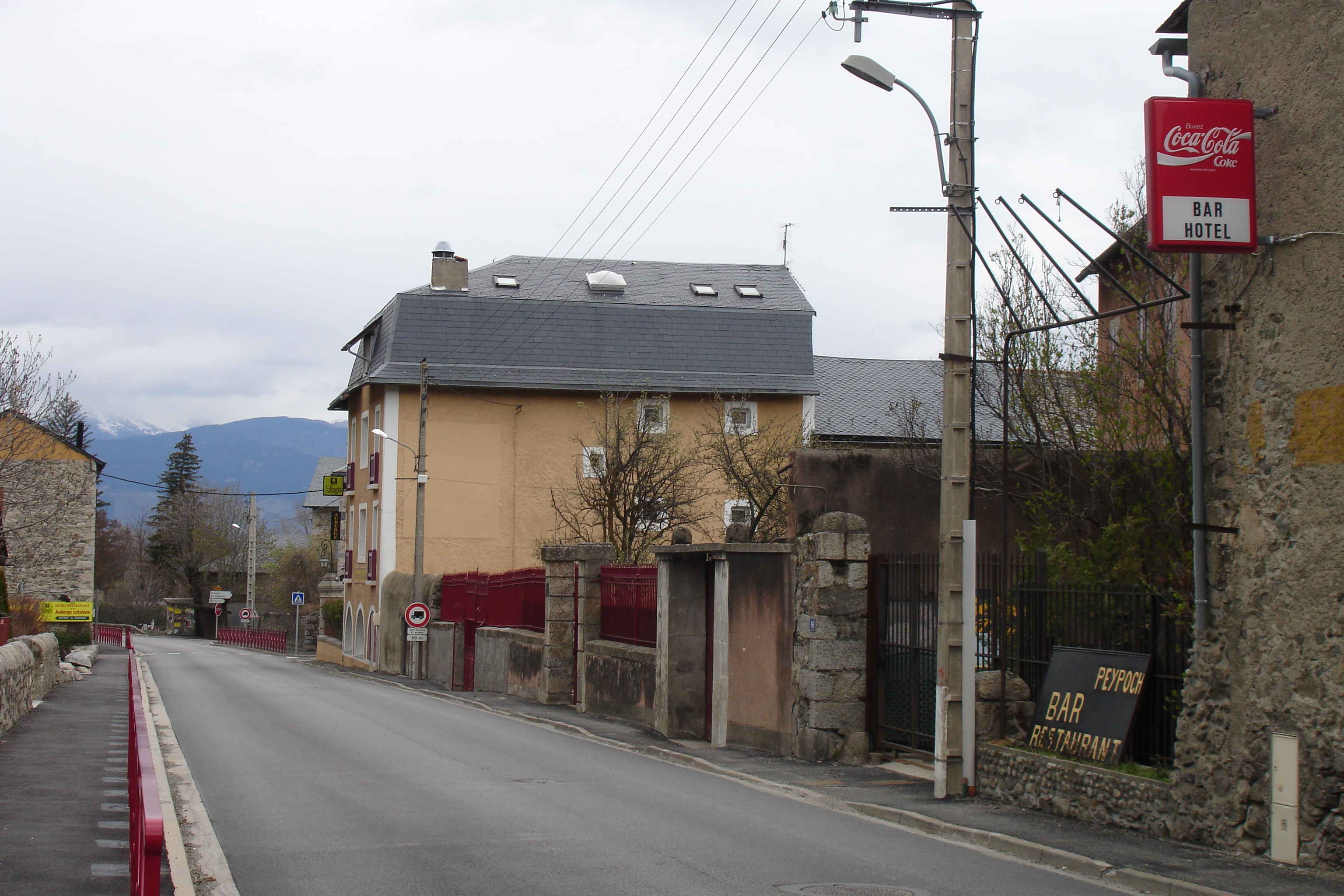 European Route E 09 (also Route Nationale 20 pass through Latour-de-Carol